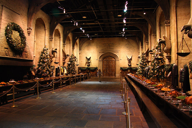 Hogwarts Great Hall set at Warner Brothers Studios